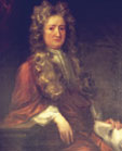 Randal MacDonnell, 1st Marquess of Antrim (1645 creation) (1609-1683)